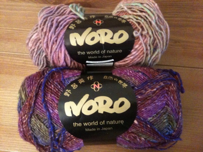 Two skeins of yarn, one aran weight, the second sock weight. Made by Noro in Japan. Variegated colours.